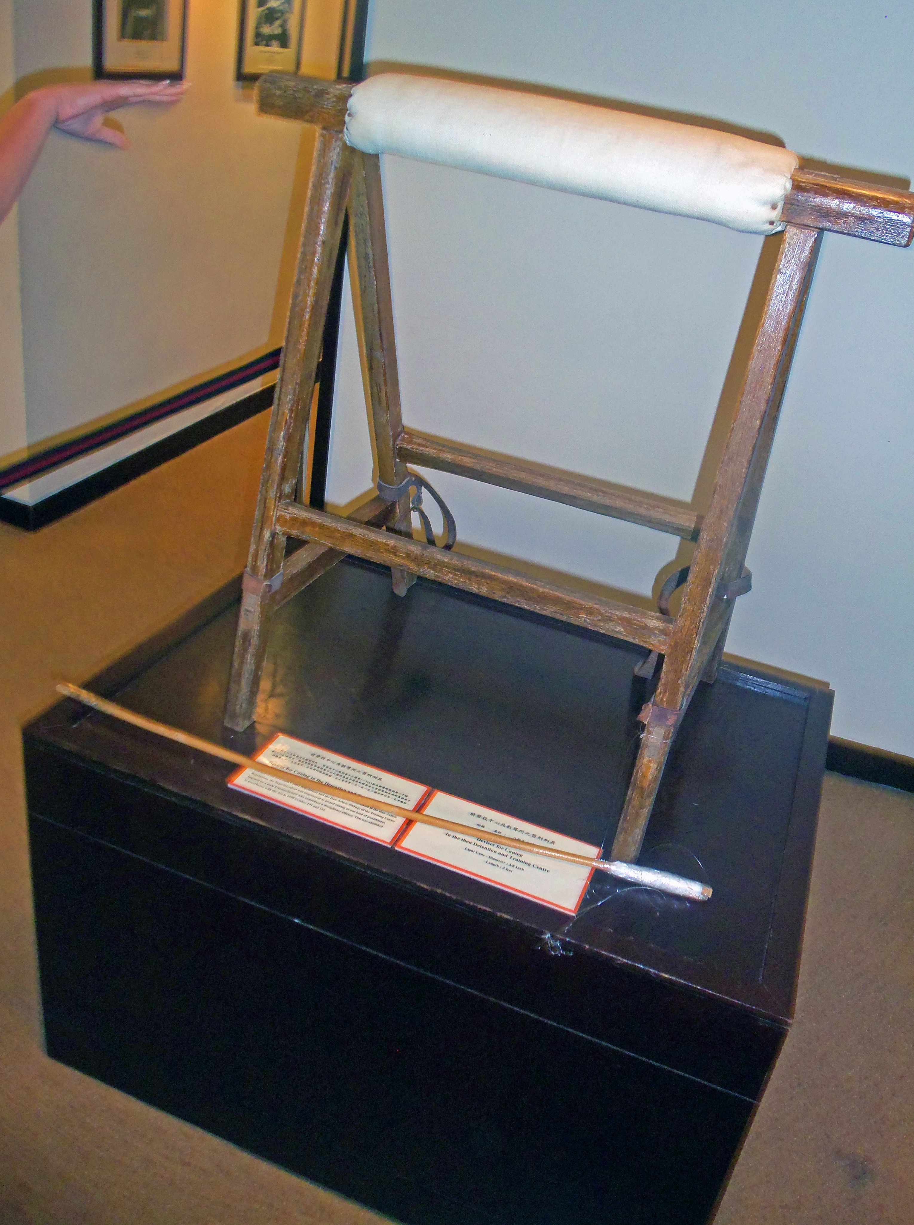 Caning stand and cane formerly used to discipline prisoners in Hong Kong under British colonial rule on display at Hong Kong Correctional Services Museum.